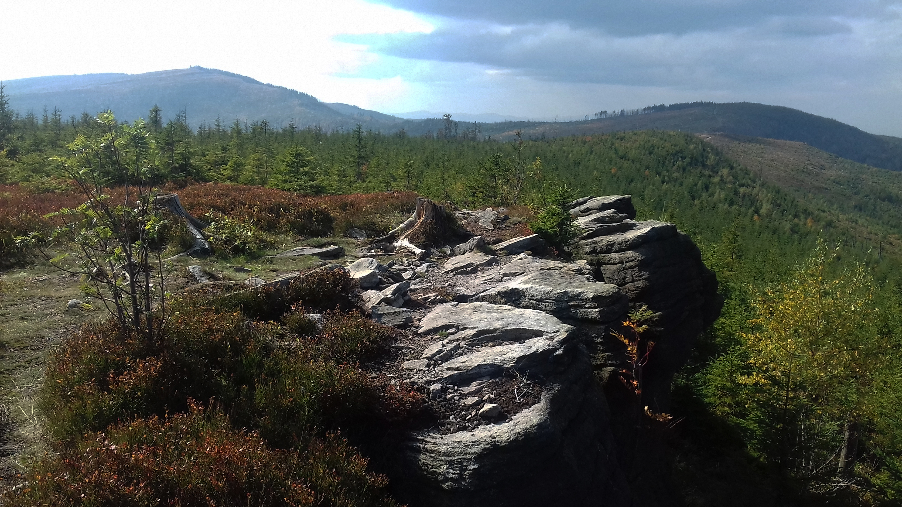 Barania Góra i Magurka Wiślańska z Magurki Radziechowskiej